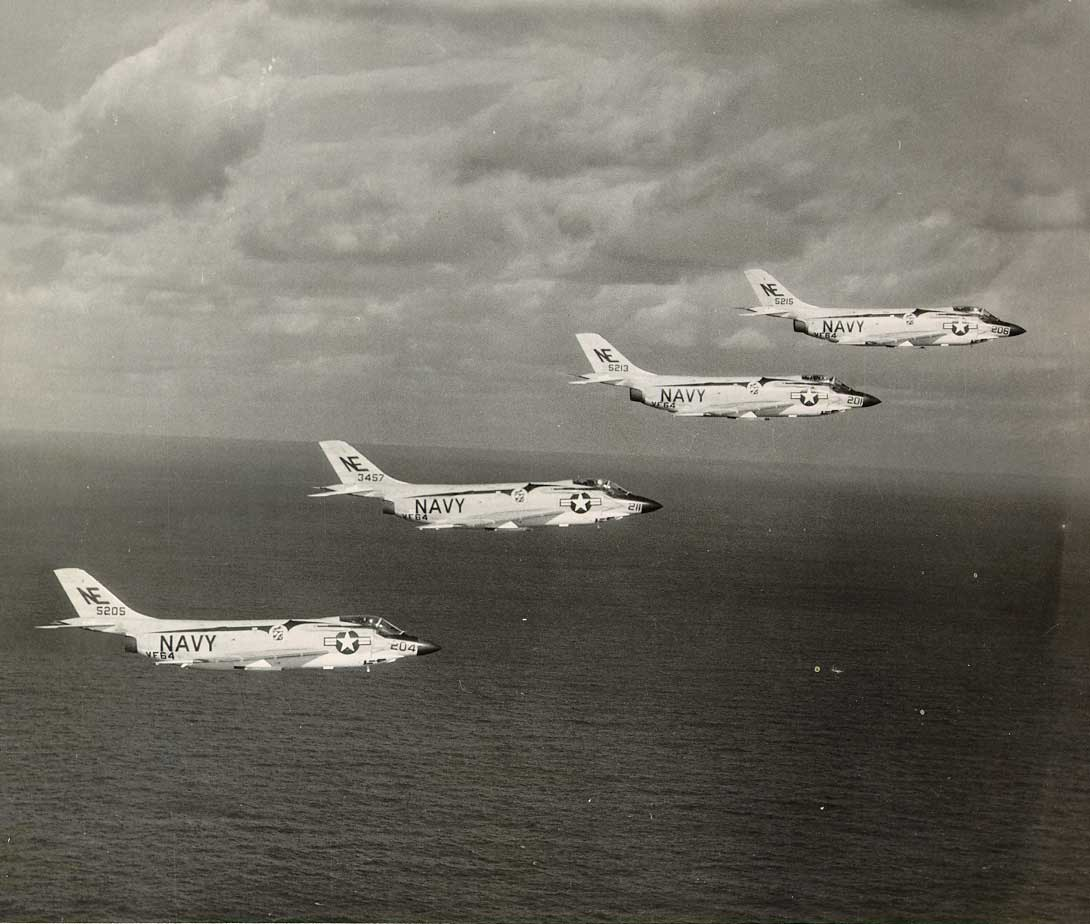 Four McDonnell F3H-2 Demon fighters of fighter squadron VF-64 Free Lancers in 1958/59. VF-64 was deployed with Carrier Air Group Two (CVG-2) aboard the aircraft carrier USS Midway (CVA-41) to the Western Pacific from 16 August 1958 to 12 March 1959. On 1 July 1959 VF-64 was redesignated VF-21. Four F3H-2s are visible: BuNos 143457, 145205, 145213, and 145215.